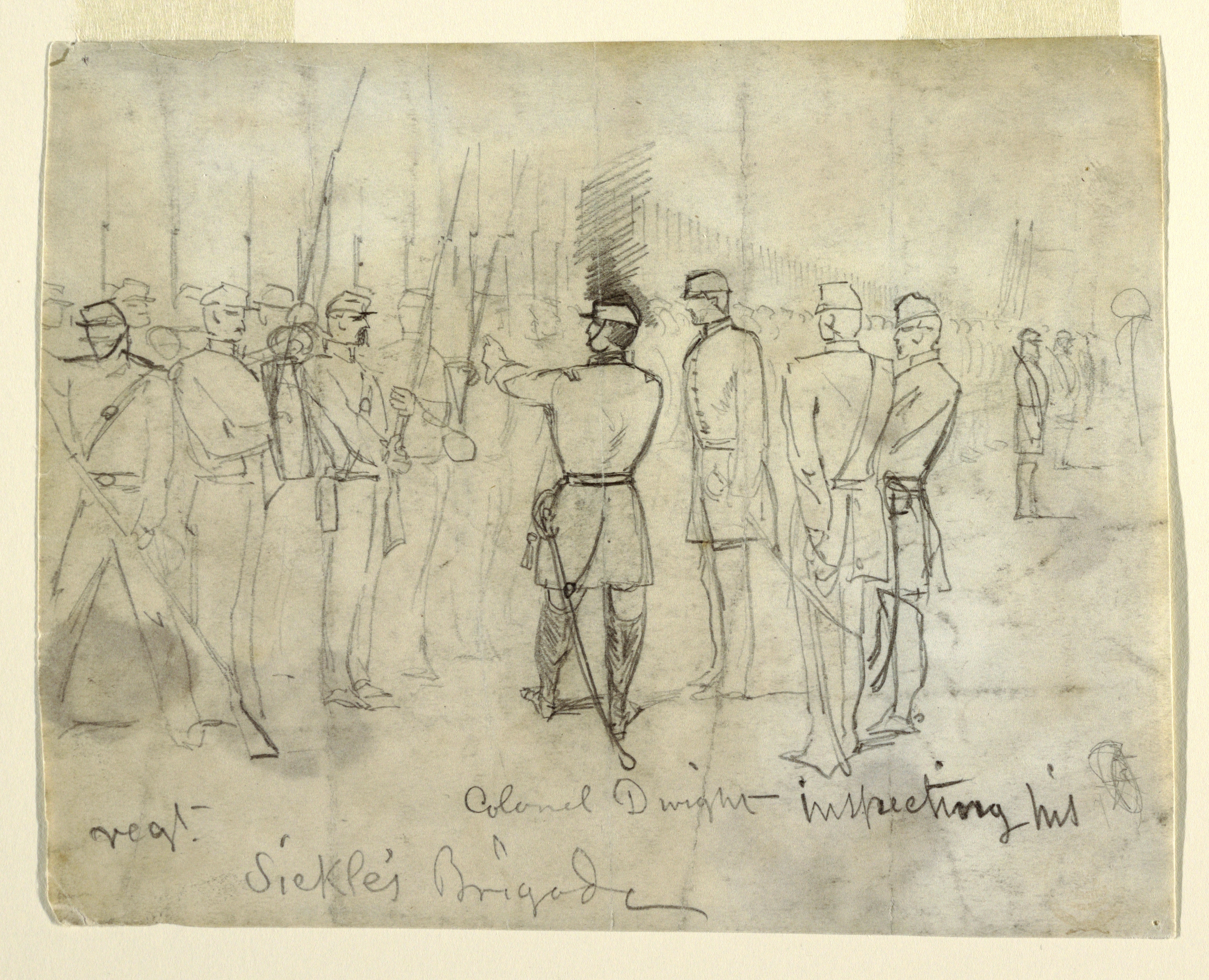 Horizontal view of officers and faintly indicated lines of soldiers.